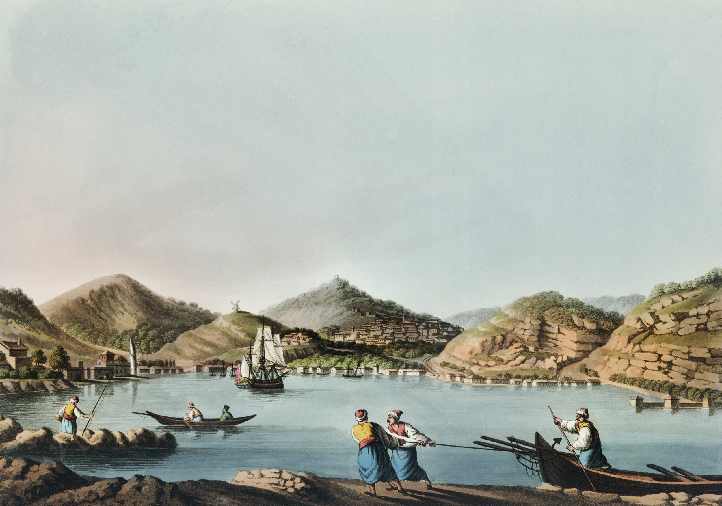 Western Harbour of the Island of Samos from Views in the Ottoman Dominions, in Europe, in Asia, and some of the Mediterranean islands (1810) illustrated by Luigi Mayer (1755-1803).